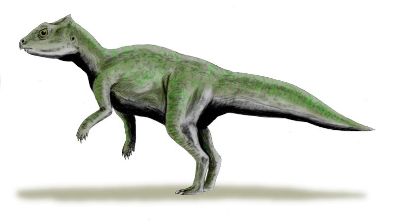 Yinlong downsi, a basal ceratopsian from the Late Jurassic of China, pencil drawing, digital coloring